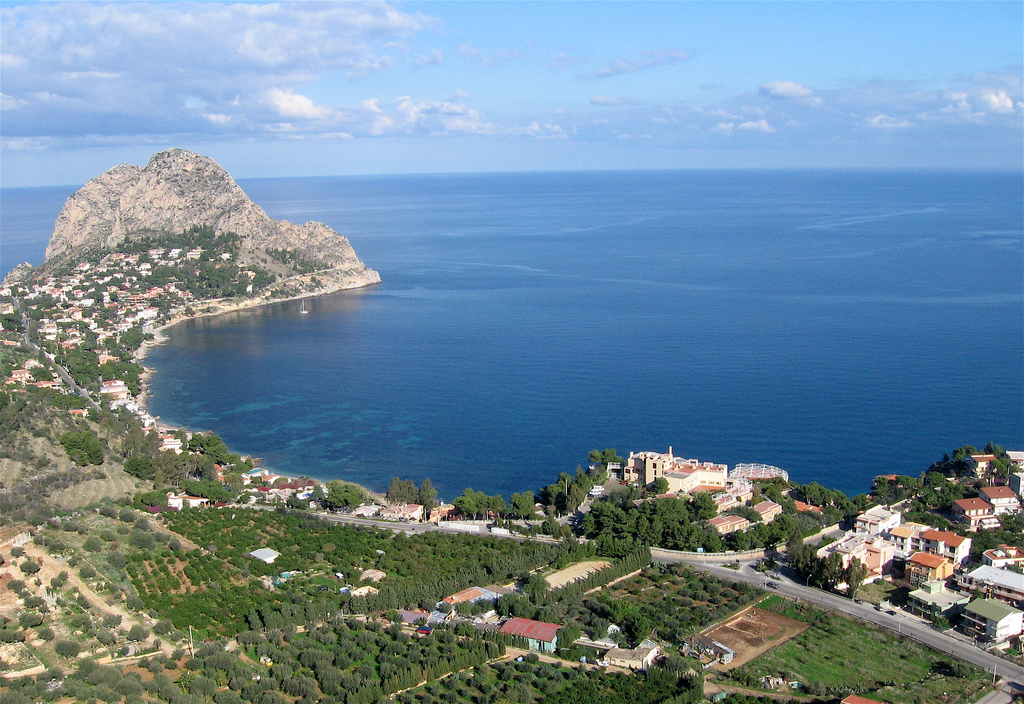 View of the coastline and Capo Zafferano at Solunto, Sicily, Italy.